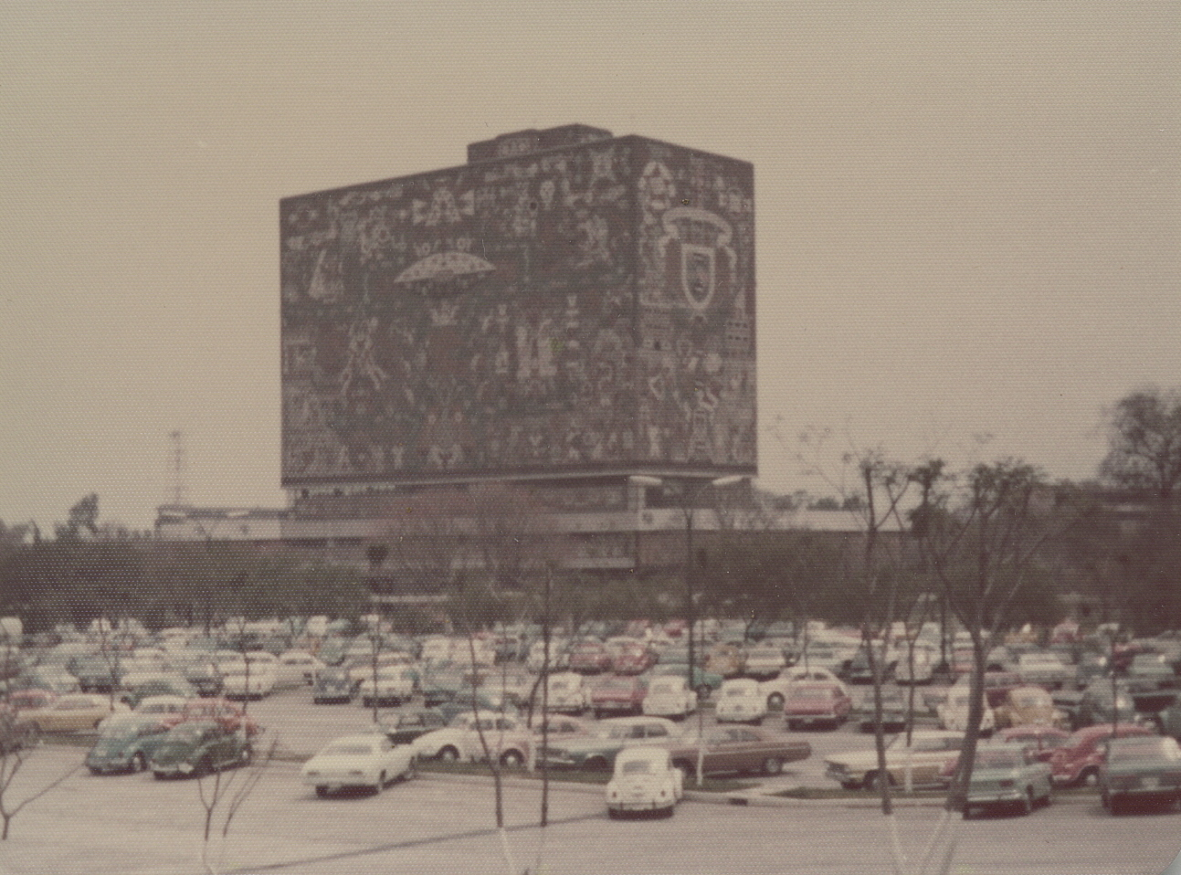 National Autonomous University, Mexico City. View to Central Library.